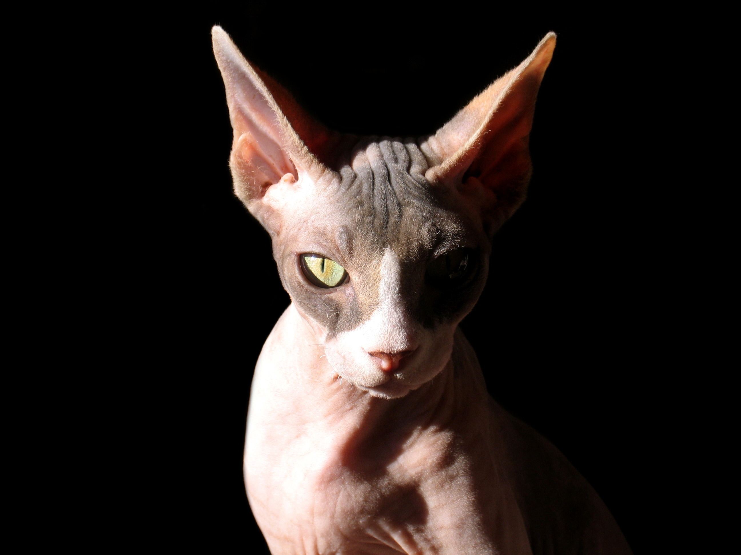 Sphynx cat